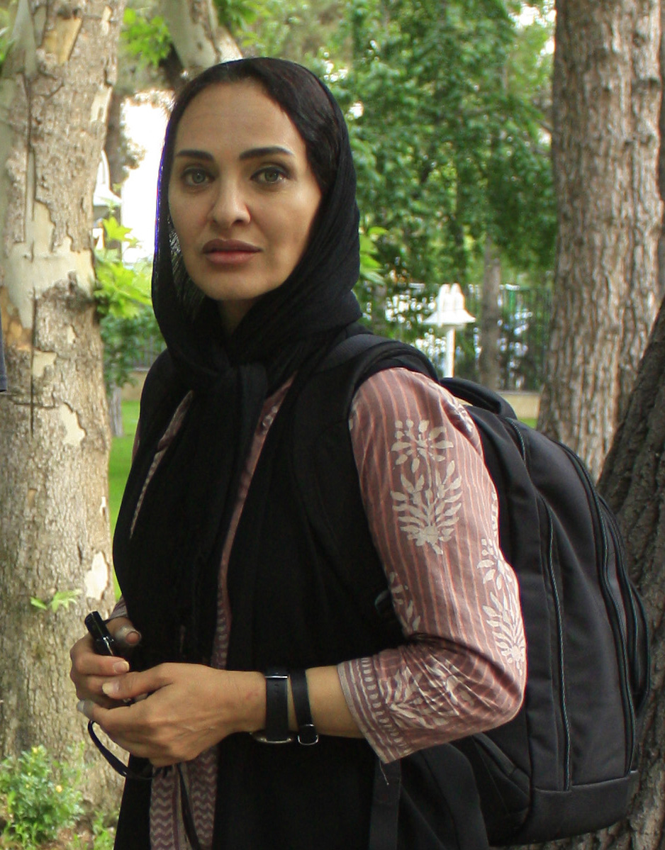 Roya Nonahali, Iranian Actress